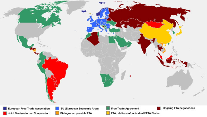 A map displaying the free trade agreements and current negotiations of the European Free Trade Association (EFTA).